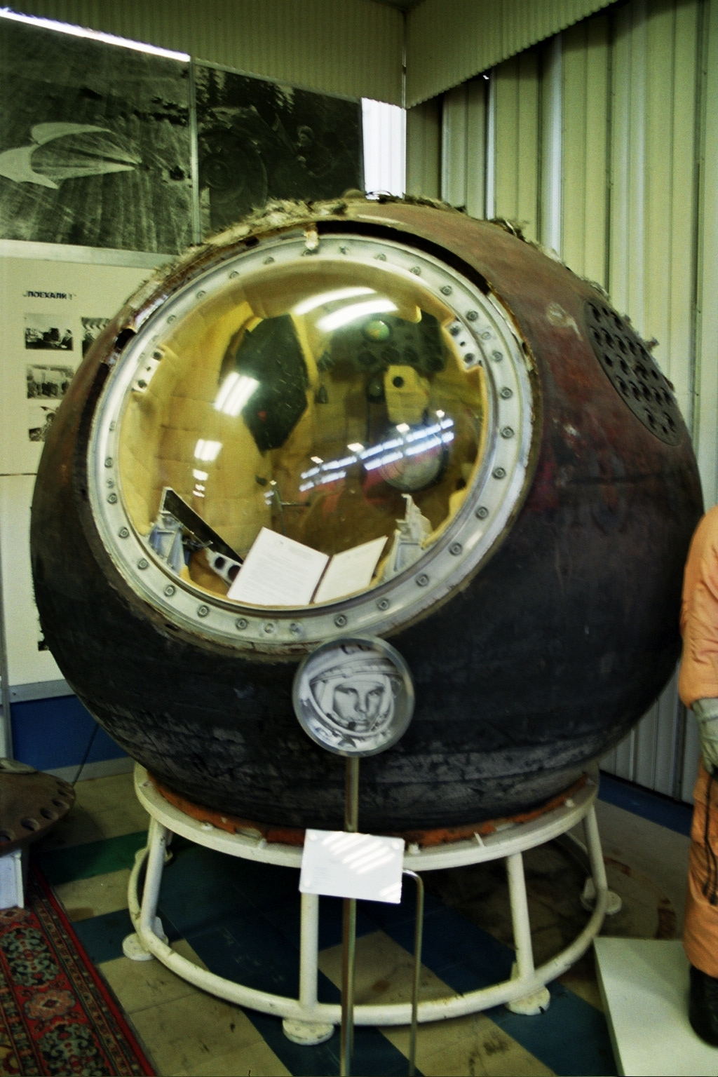 Vostok 1 descent module on display at the RKK Energiya Museum in Moscow